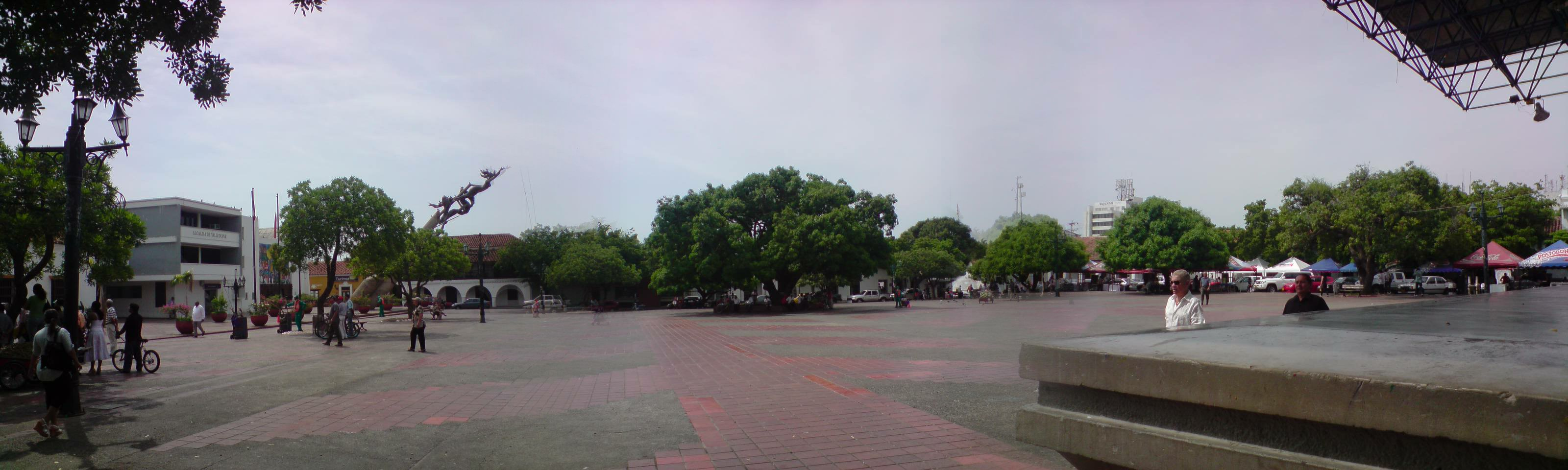 Overview of the Plaza Alfonso Lopez